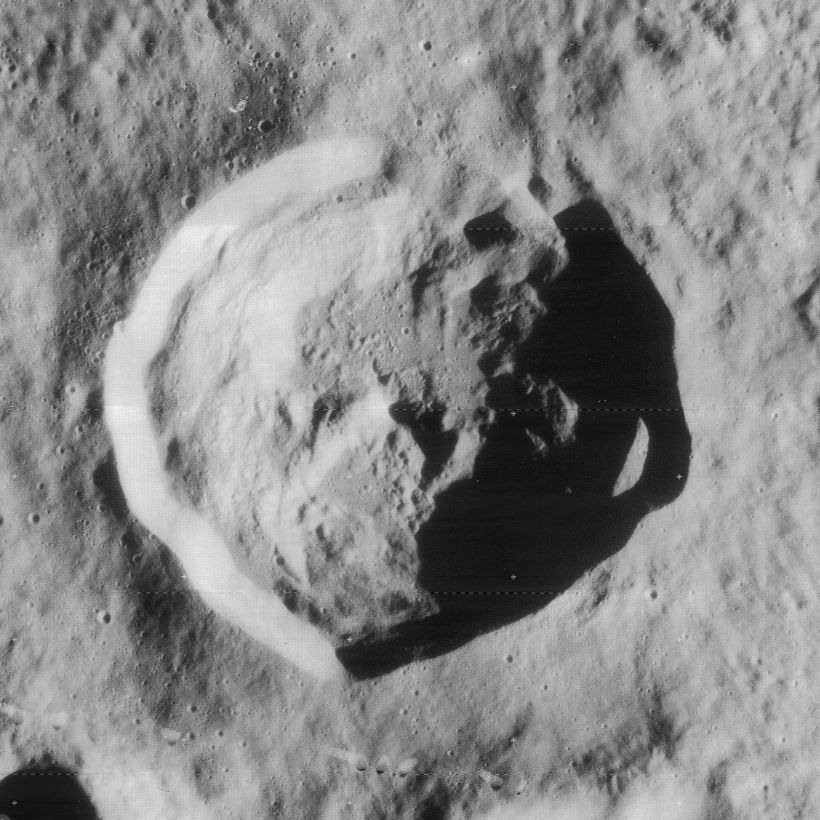 Wright, on the moon. Spots along bottom are blemishes on original.